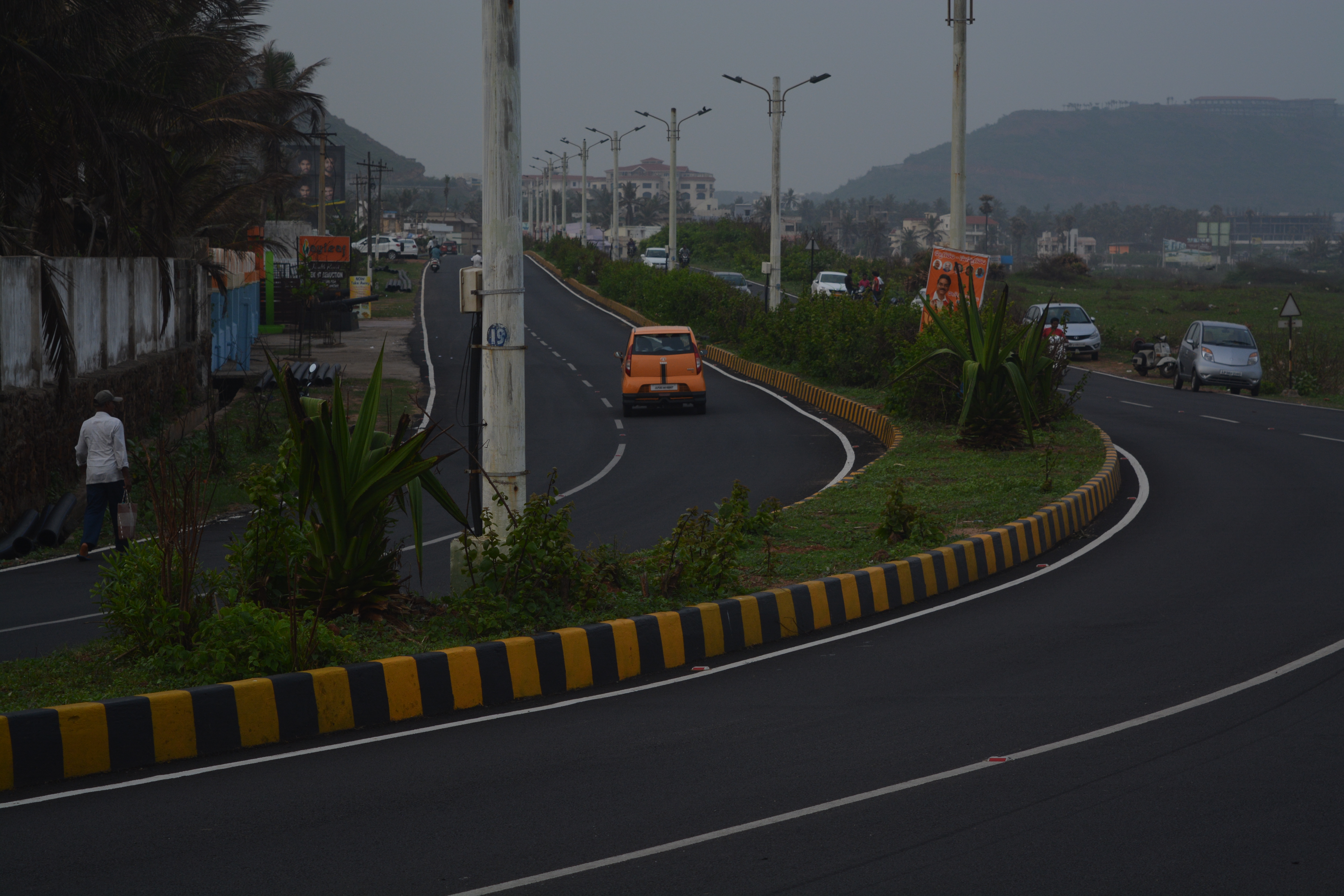 One of the clean and best beach ways in Visakhapatnam